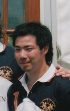 Teams from the 2006 Laureus day at Ham Polo Club, London. Top, Mike Trippitt, Pepe Heguy and Adolfo Cambiaso. Bottom: Ignacio Heguy, Shafi Kassem, Daley Thompson, Edwin Moses, Hugo Porta Vichai Raksriaksorn, Eduardo Heguy and Aiyawatt Raksriaksorn.